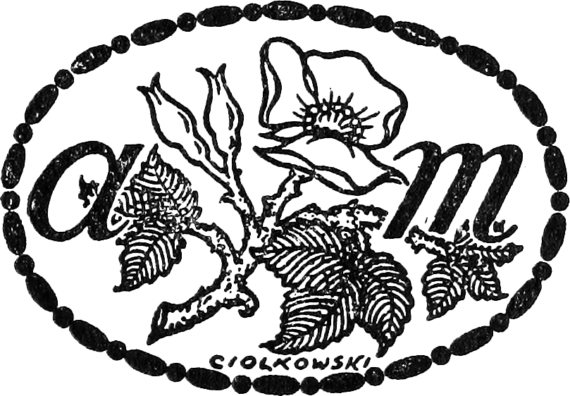 Albert Messein Publisher in Paris, logo designed by Ciolkowski (circa 1919)